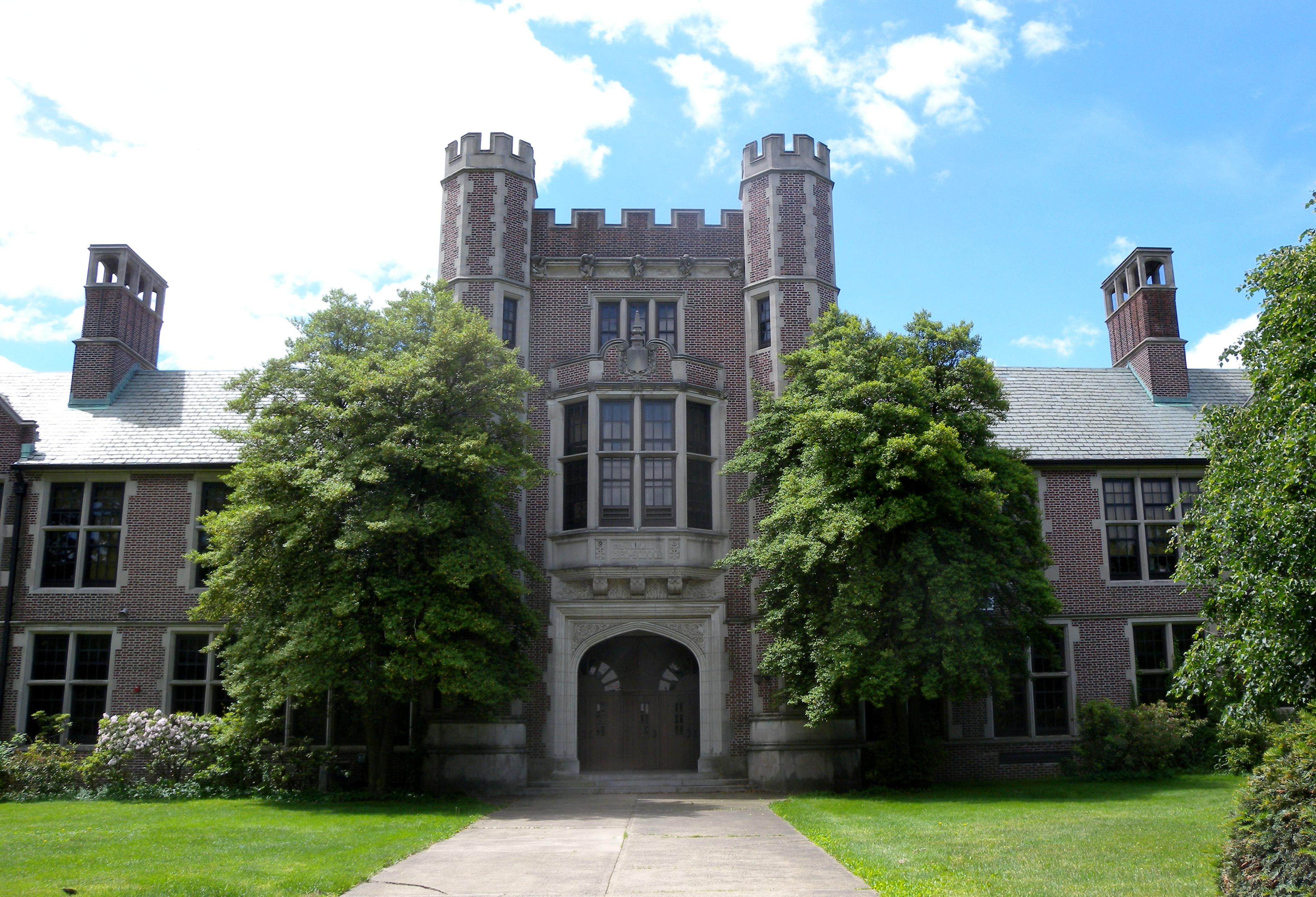 Looking southwest from Morris Avenue at former Summit High School on a mostly sunny midday. (Former Summit Senior High School.)